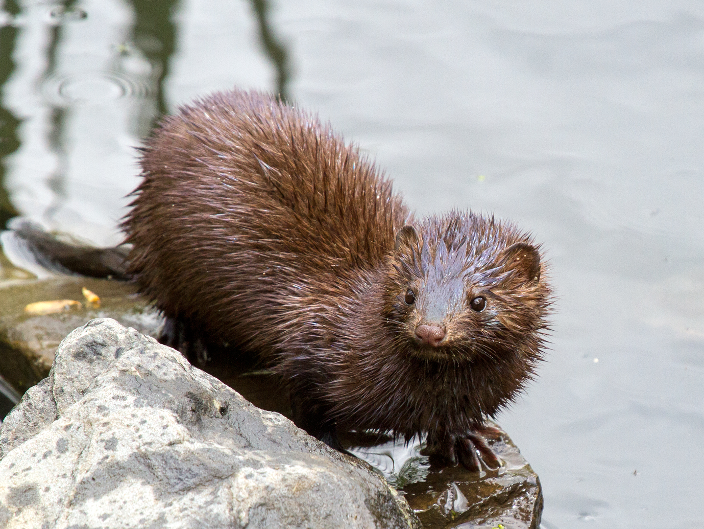 An American Mink in Capisic Pond, Portland, ME.